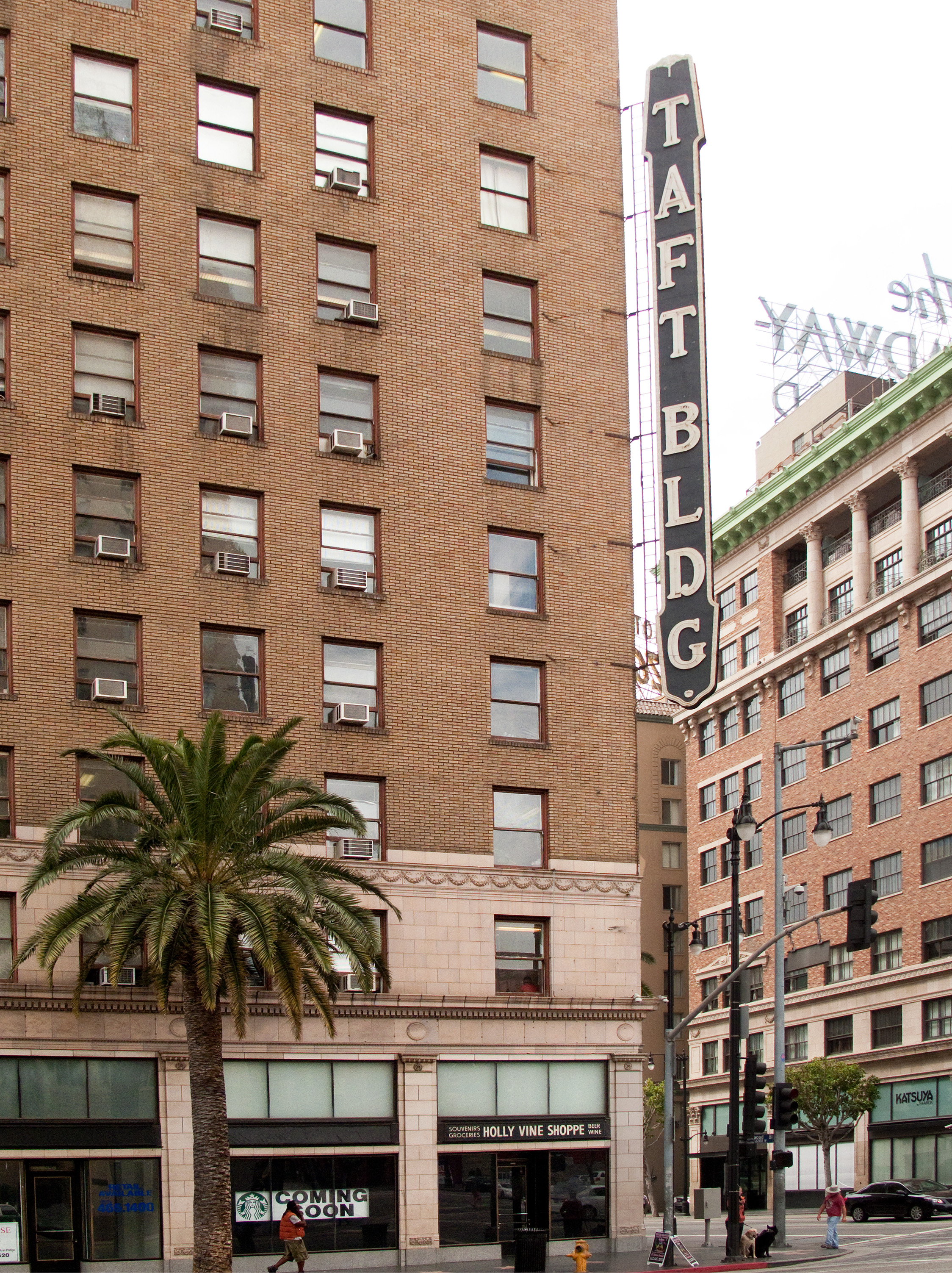 Sign of the Taft Building at Hollywood and Vine, Los Angeles